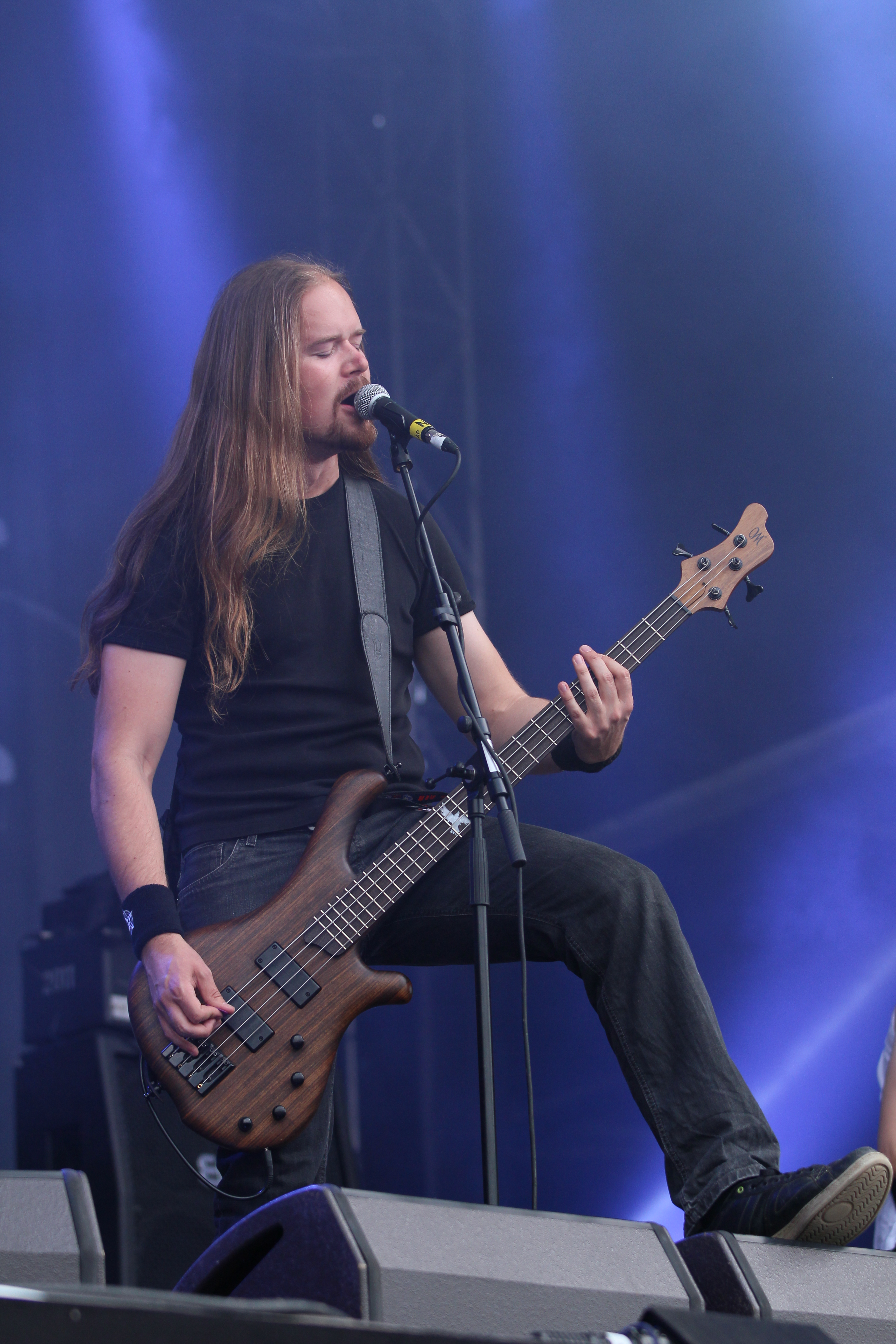 The Finish melodic death metal band Insomnium at the Rockharz Open Air 2014 in Ballenstedt/Germany